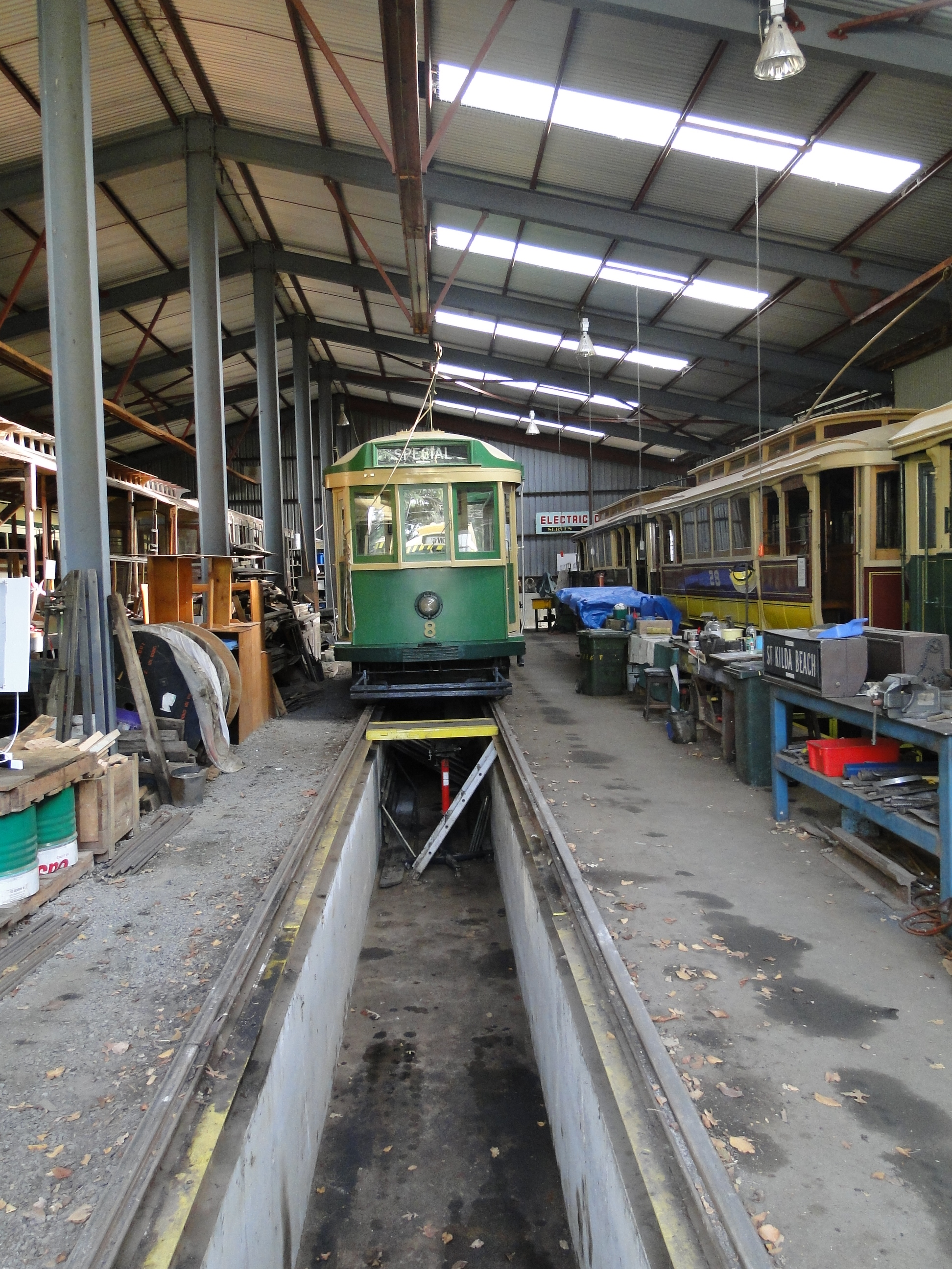 Maintenance pit in the Ballarat Tramway Preservation Society Depot, at Lake Wendouree, Victoria, Australia.